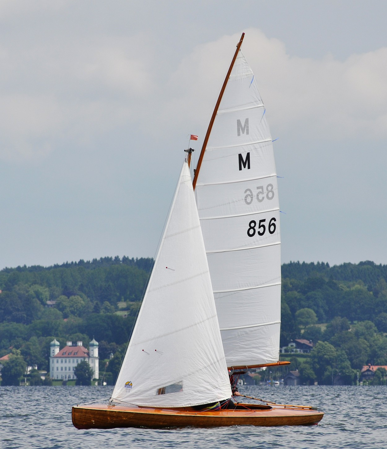 M-Jolle